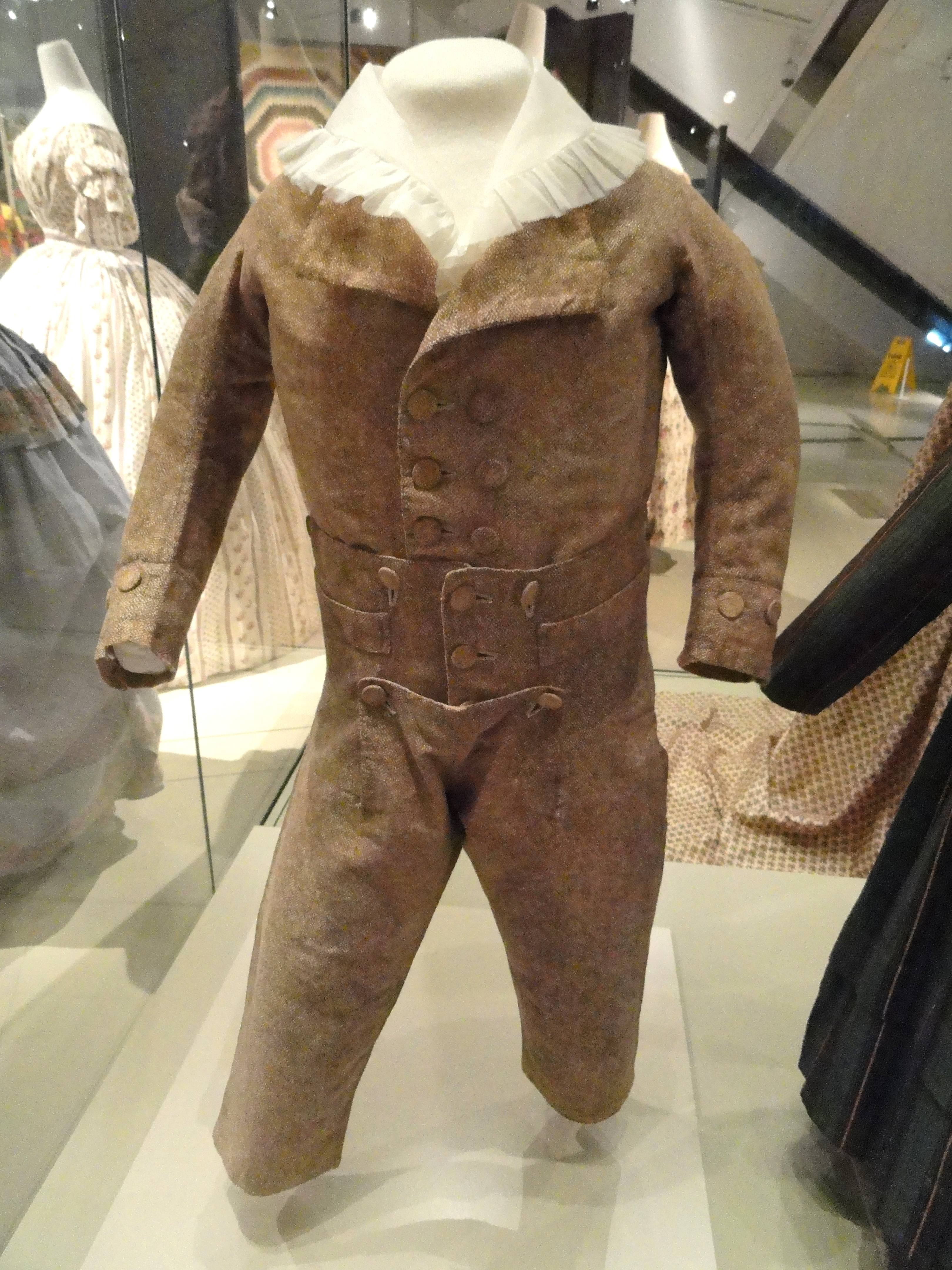 Exhibit in the Patricia Harris Gallery of Textiles & Costume, Royal Ontario Museum, Toronto, Ontario, Canada. This exhibit is old enough so that it is in the public domain, and photography was permitted in the museum. I took this photograph and release it into the public domain.